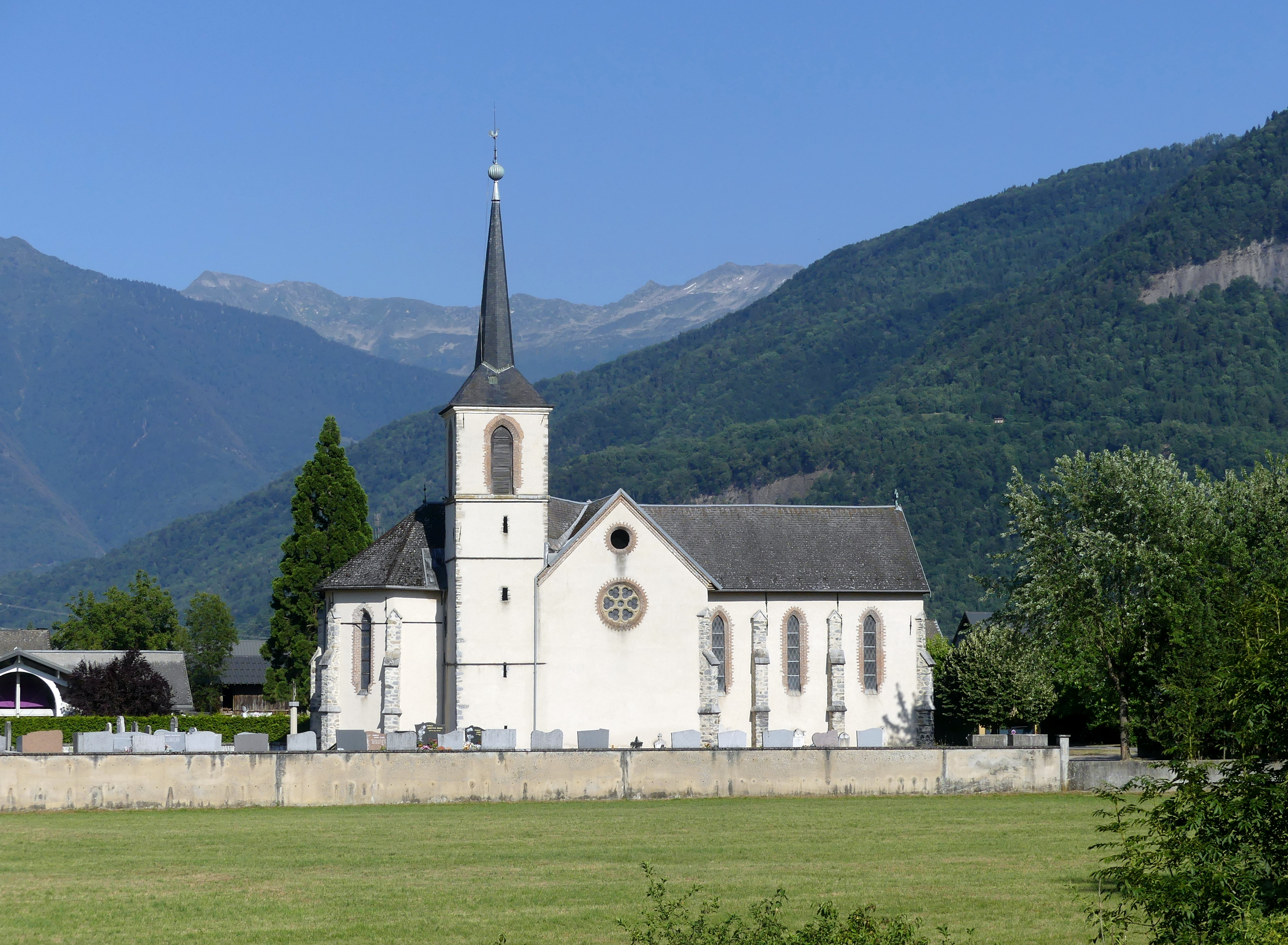 Sight, at the end of a summer afternoon, of the western side of the Église de l'Assomption church, in Bourgneuf, Savoie, France.